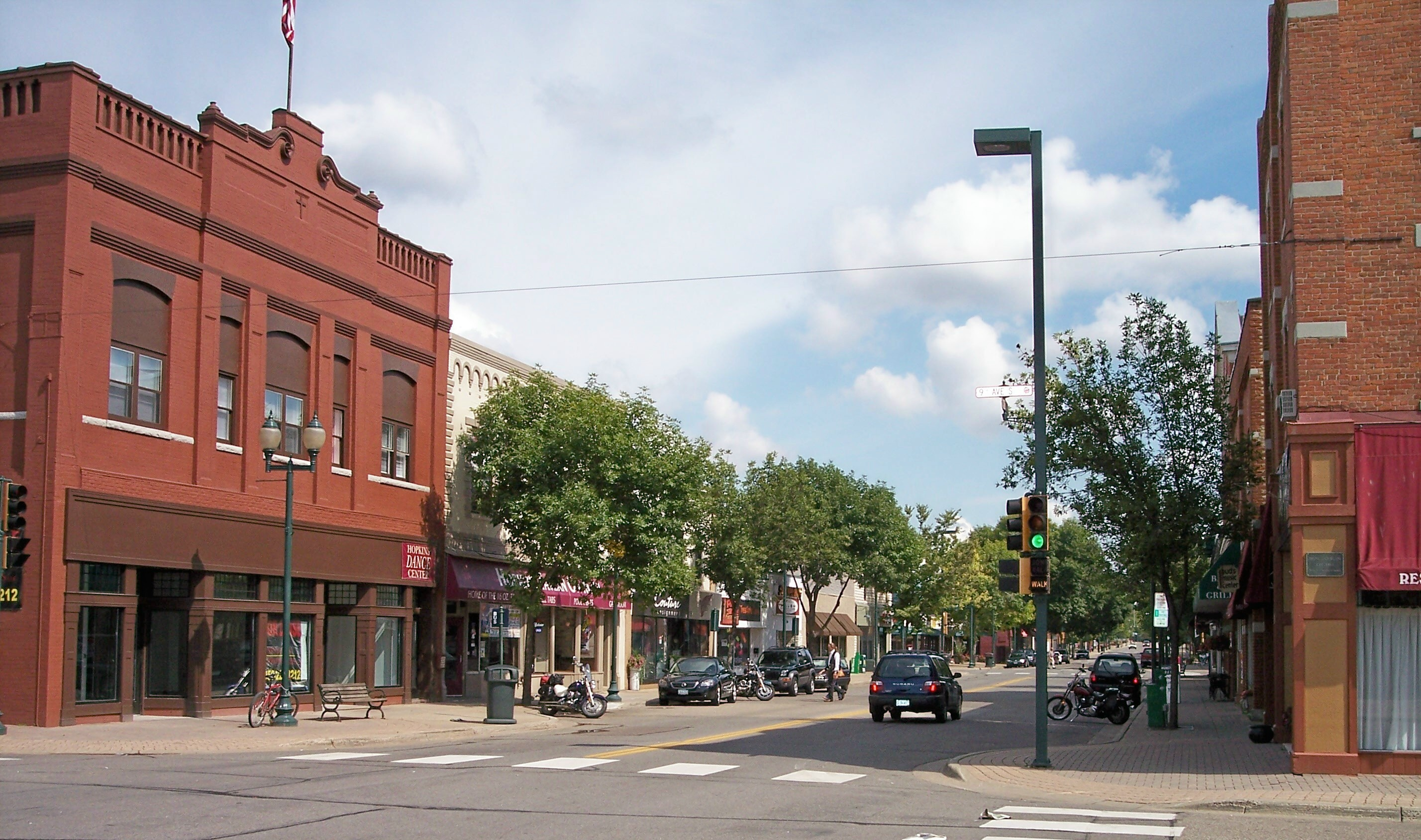 Mainstreet (local spelling) in downtown Hopkins, Minnesota